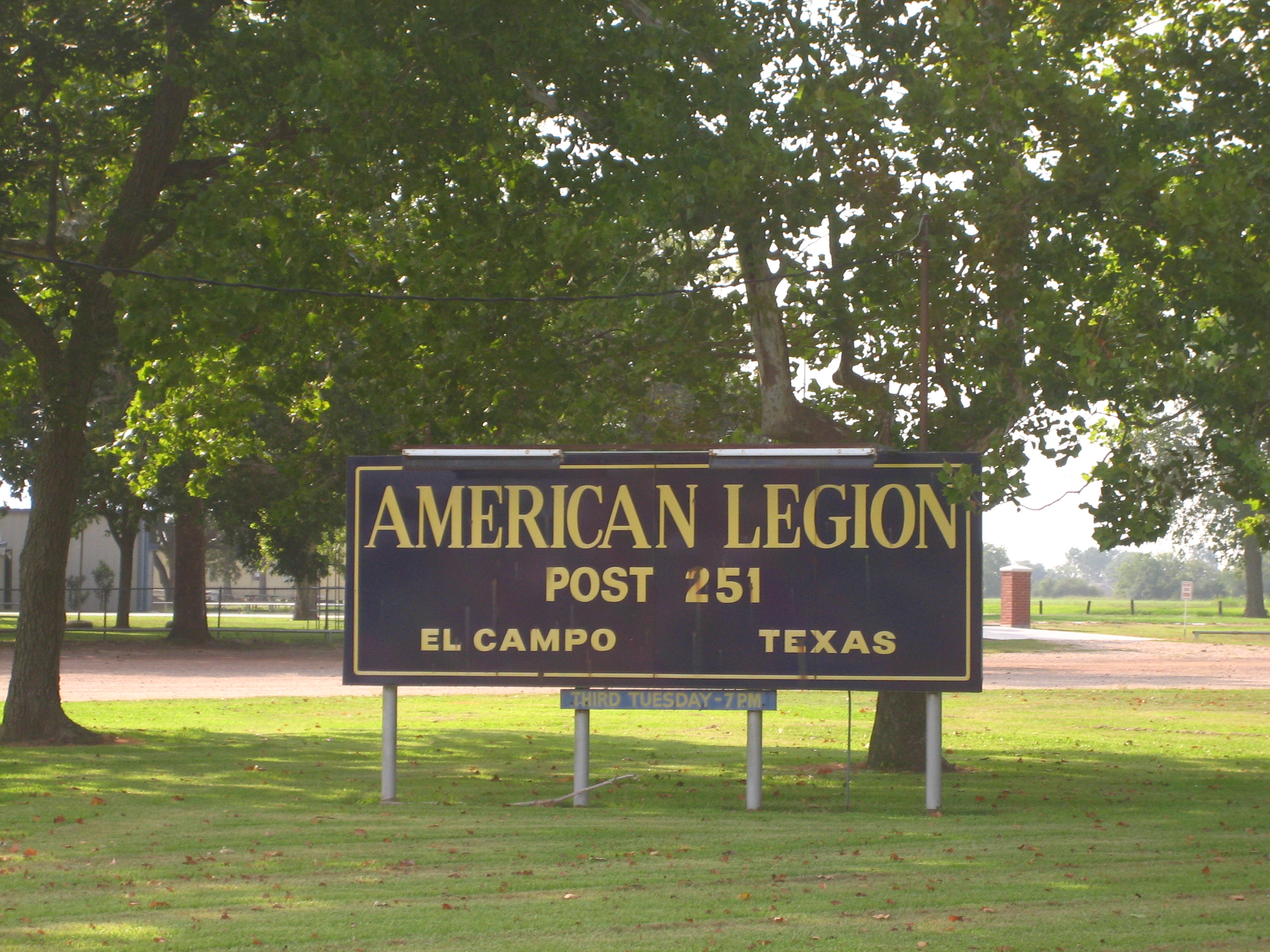 I took photo on July 31, 2008.Billy Hathorn (talk) 00:30, 18 August 2008 (UTC)